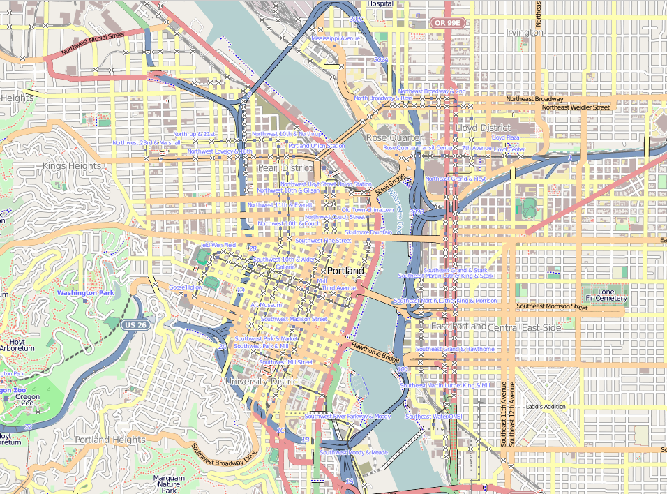 Map of downtown Portland, Oregon This map of Downtown Portland was created from OpenStreetMap project data, collected by the community. This map may be incomplete, and may contain errors. Don't rely solely on it for navigation.